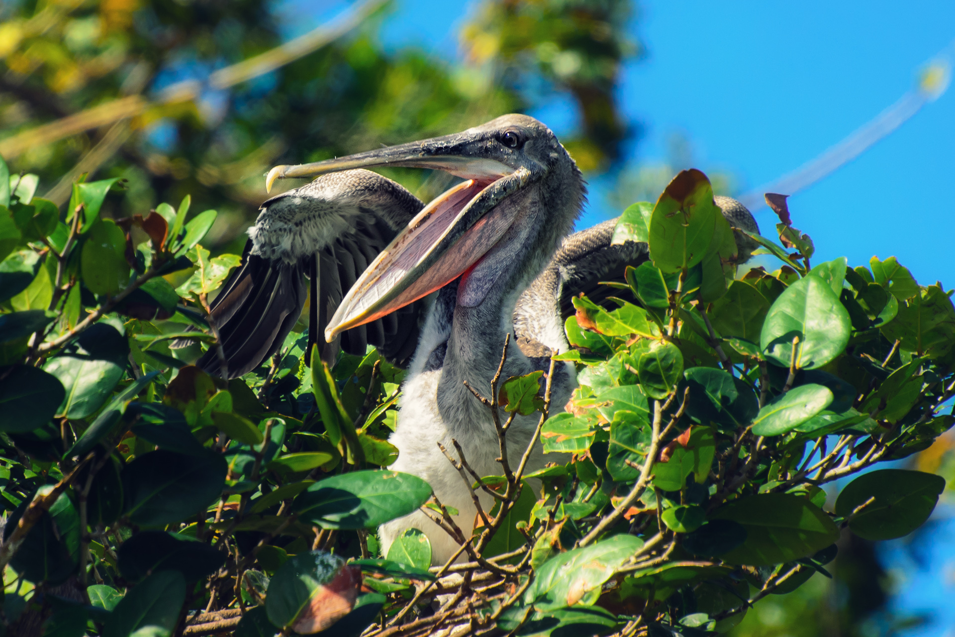 Pelican in the nest (Los Haitises National Park, Dominican Republic)